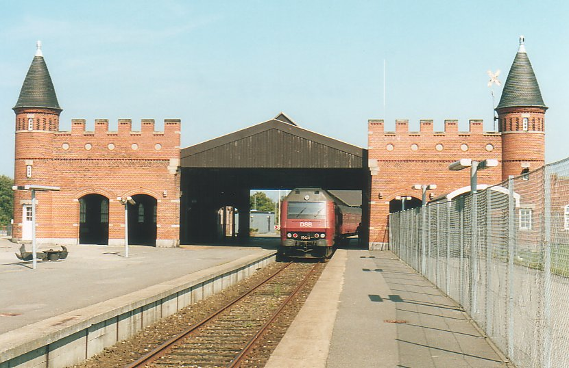 A train to Copenhagen departs from Gedser station.